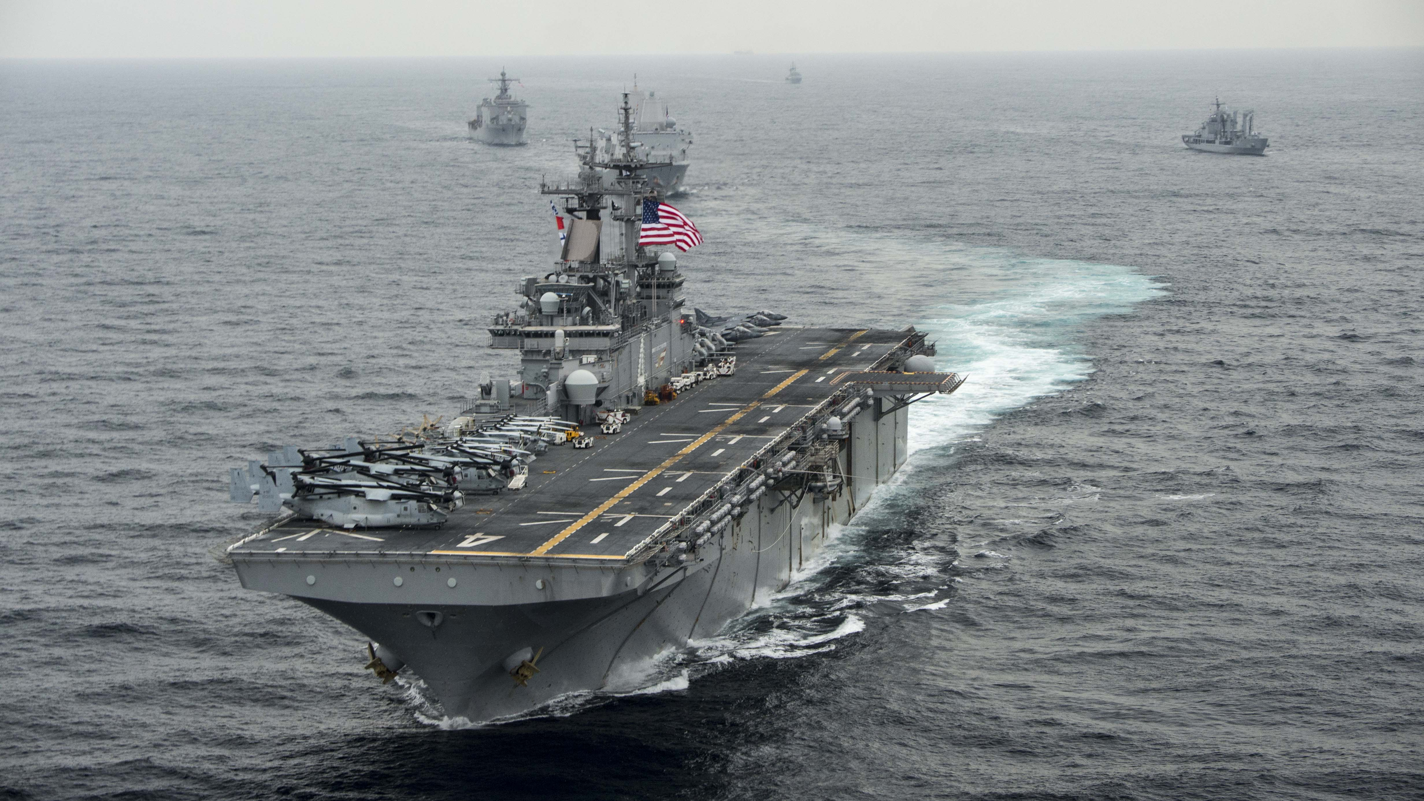 EAST SEA (March 8, 2016) The amphibious assault ship USS Boxer (LHD 4) transits the east sea during Exercise Ssang Yong 2016. Boxer is the flagship of the Boxer Amphibious Ready Group and is participating in exercise Ssang Yong 16. Ssang Yong 16 is a biennial combined amphibious exercise conducted by forward-deployed U.S. forces with the Republic of Korea Navy and Marine Corps, Australian Army and Royal New Zealand Army Forces in order to strengthen our interoperability and working relationships across a wide range of military operations - from disaster relief to complex expeditionary operations. (U.S. Navy photo by Mass Communication Specialist Seaman Craig Z. Rodarte/Released)160308-N-YR245-418 Join the conversation: navylive.dodlive.mil